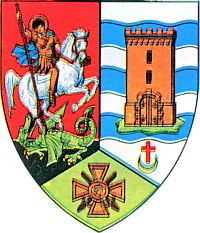 Coat of arms of Giurgiu County, Romania (until 2009).